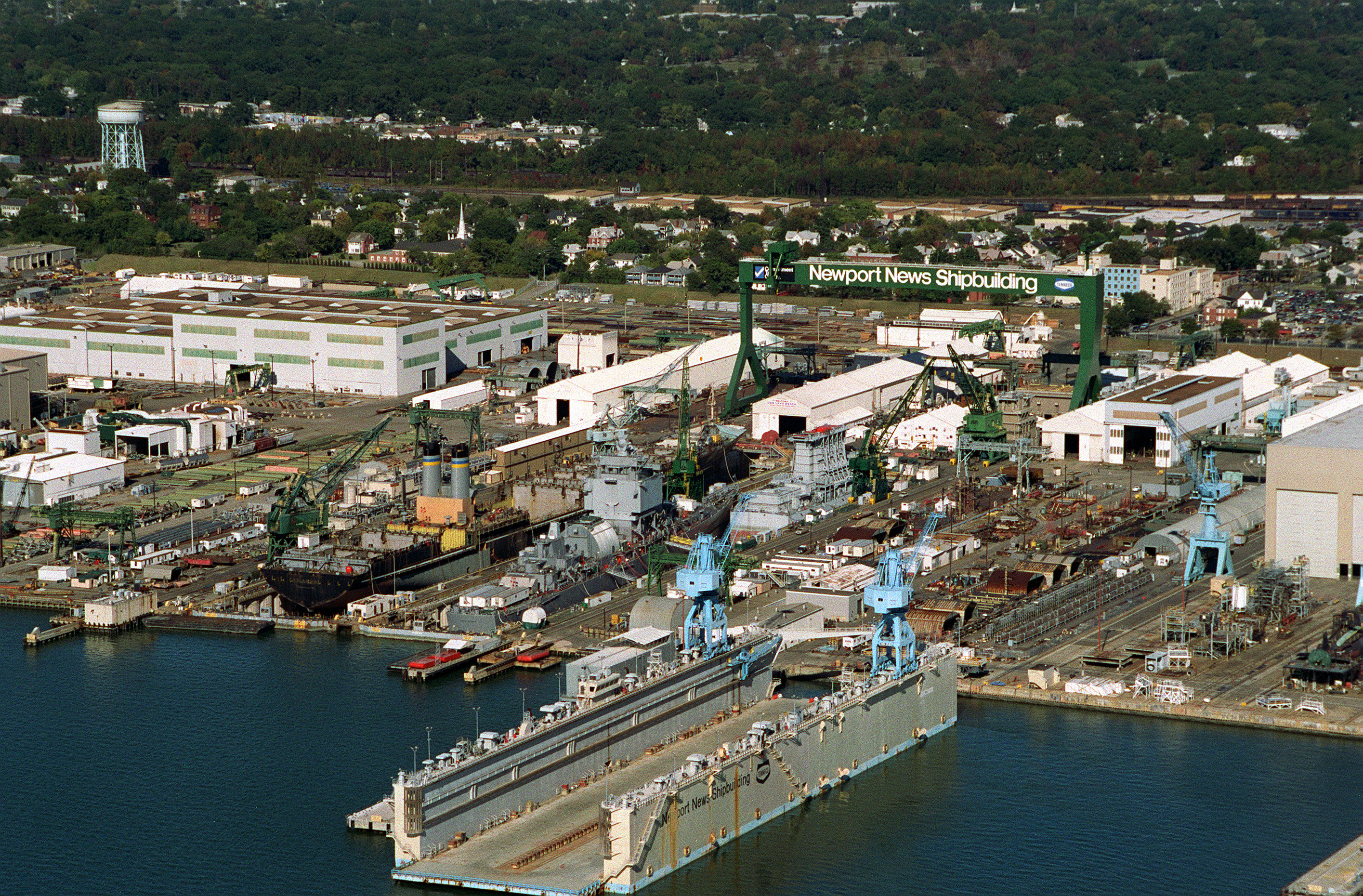 An aerial view of the Newport News Shipbuilding & Drydock shipyard on the James River in Norfolk, VA. In drydock #11 is the USNS Gilliand (T-AKR-298) prior to her conversion to a roll-on/roll-off rhip. In the drydock to the right of AKR-298 is the nuclear-powered guided missile cruiser USS Long Beach (CGN-9) while undergoing deactivation. Image dated 17 Oct 1994.